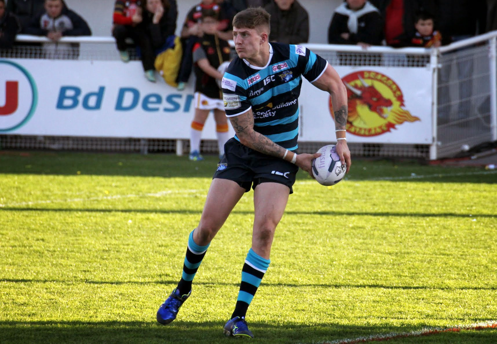 Liam Sutcliffe